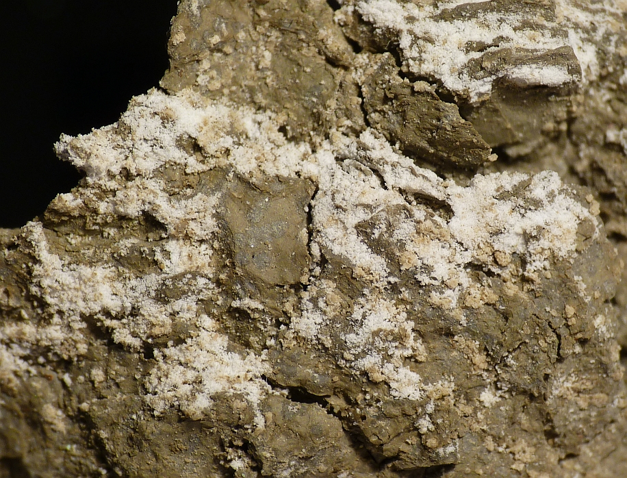 Brushite, Montmorillonite Locality: Røjle Klint, Fyns Amt, Fyn, Southern Denmark Region, Denmark White tiny brushite crystals on grayish massive montmorillonite. Ex Claus Hedegaard collection. Field of view 2 cm.